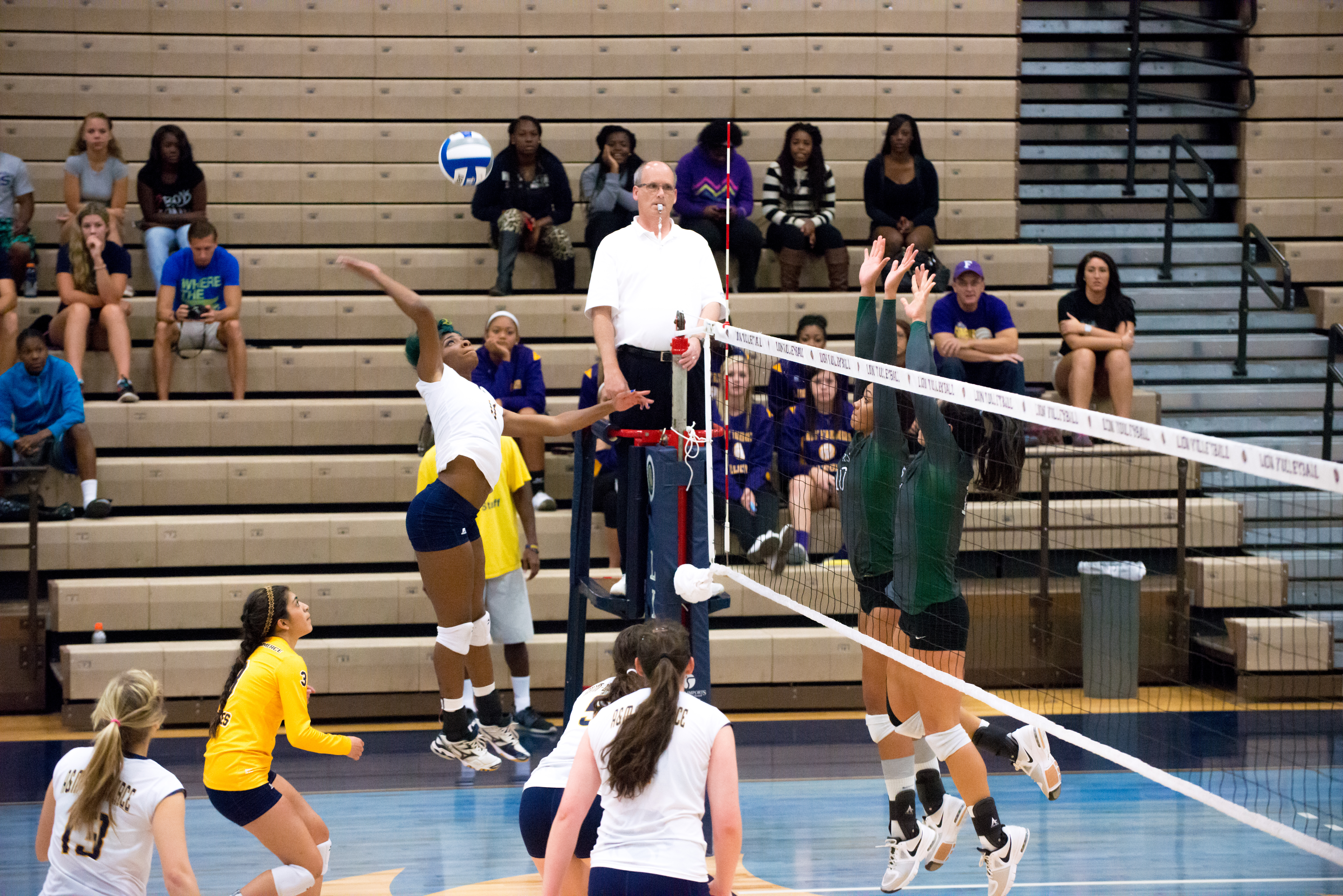 Athletics-Volleyball vs ENMU-8350.jpg 2014–15 Texas A&M–Commerce Lions women's volleyball team